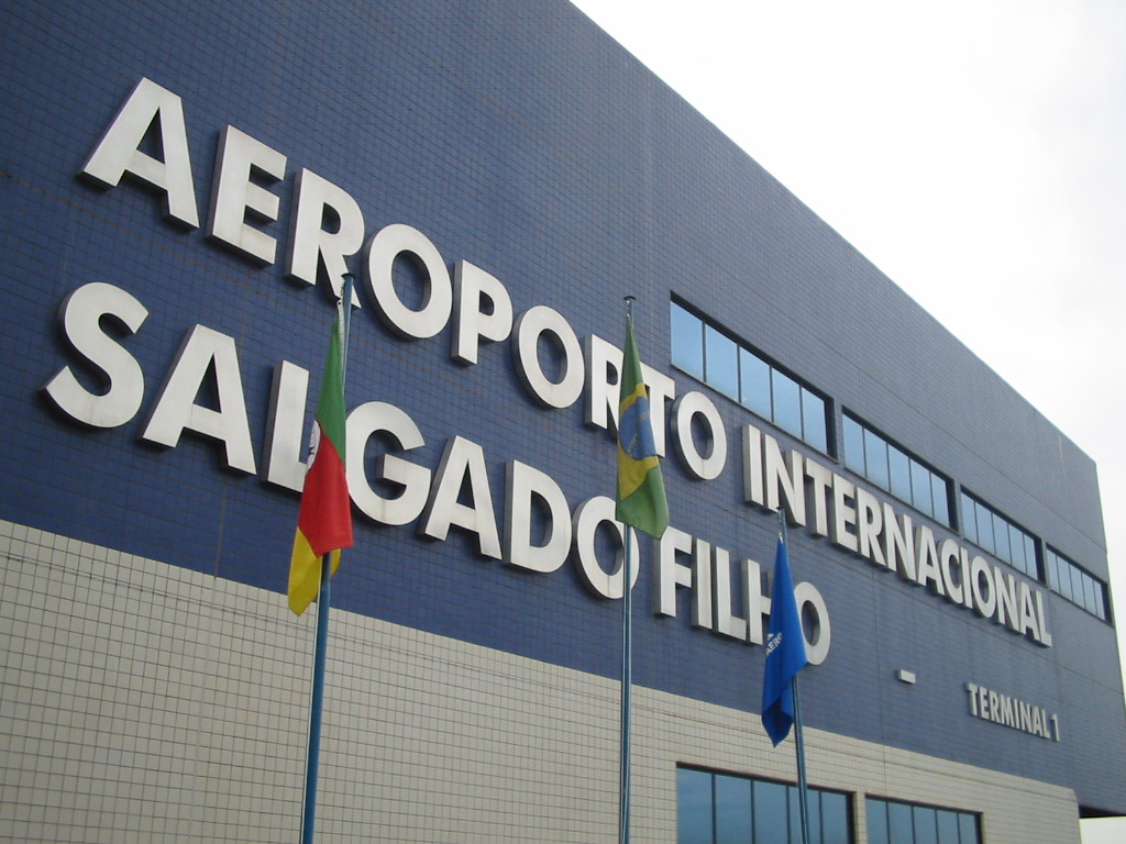 Salgado Filho International Airport